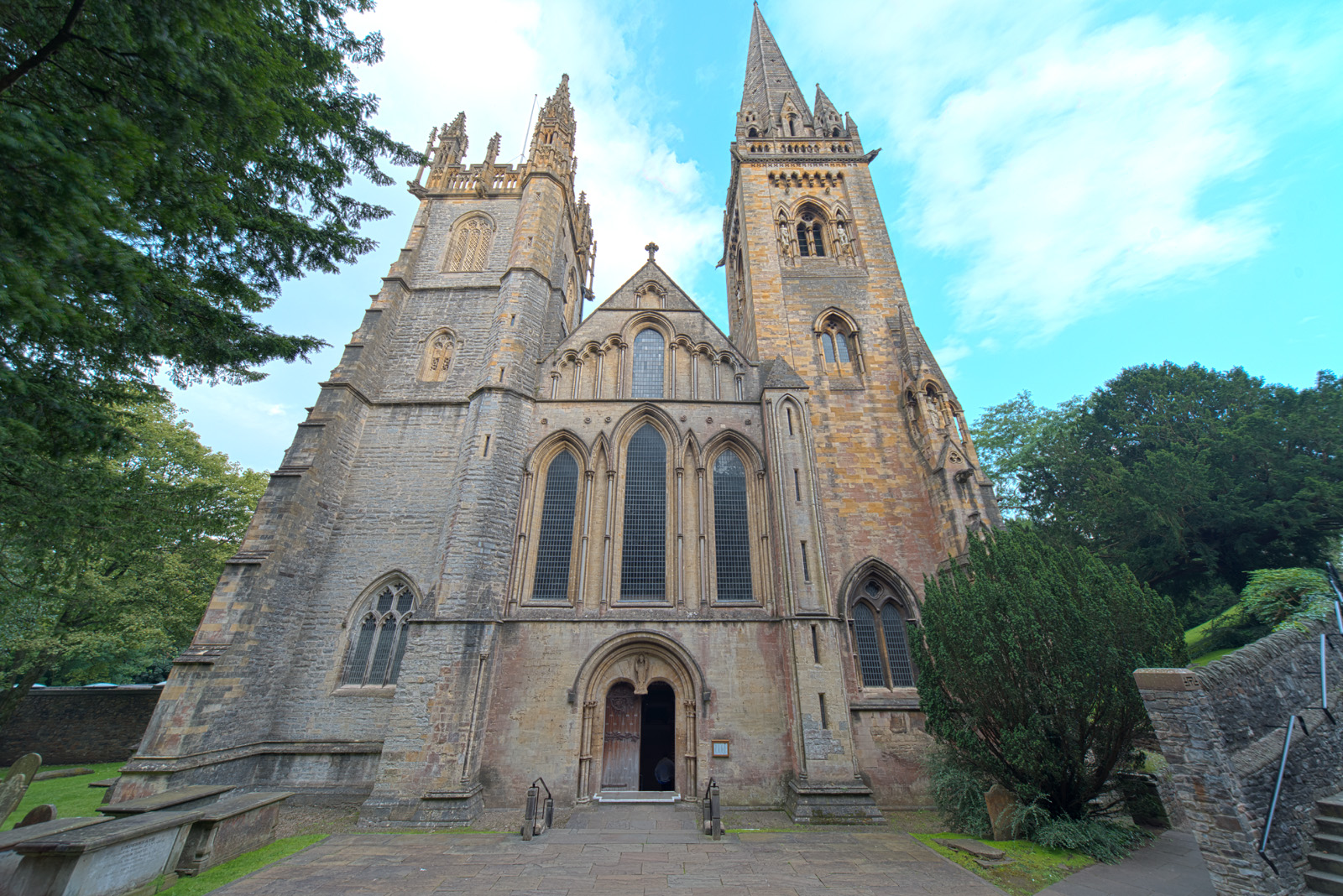 West front of Llandaff Cathedral, Cardiff, Wales